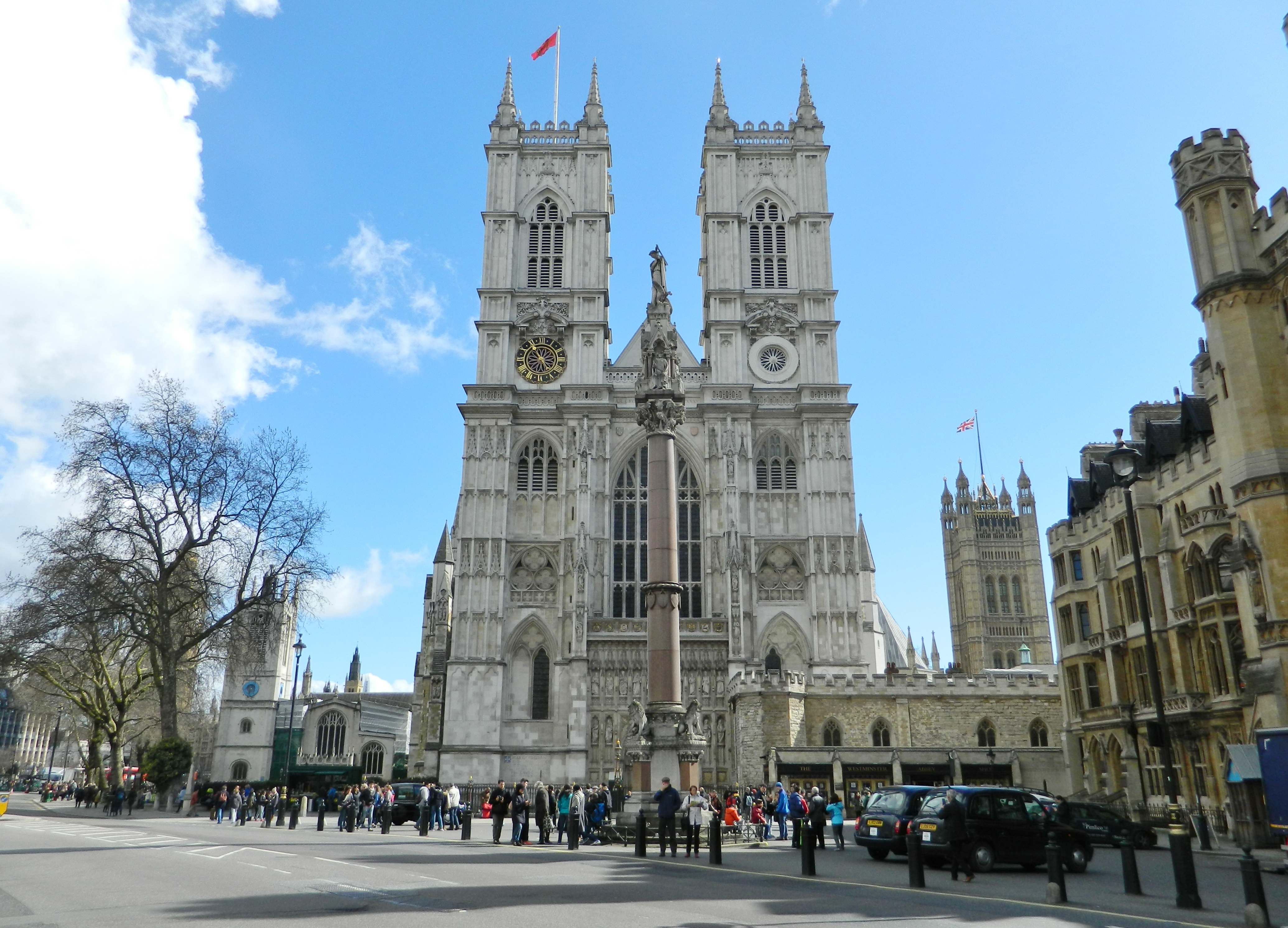 Westminster Abbey façade